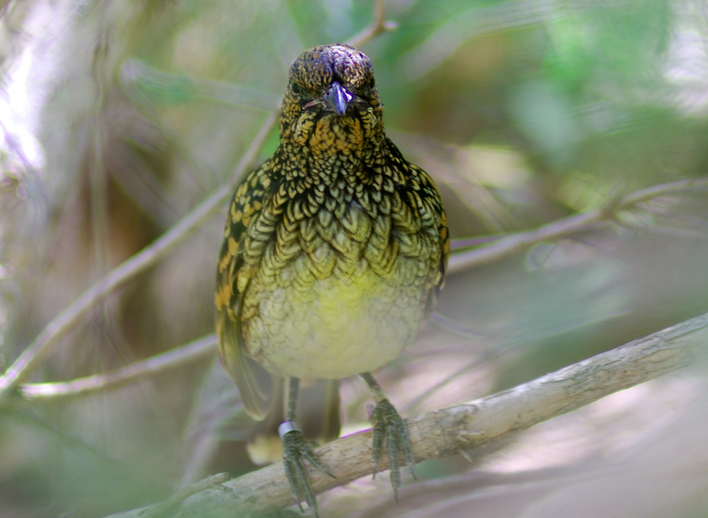 The Western Bowerbird (Chlamydera guttata)